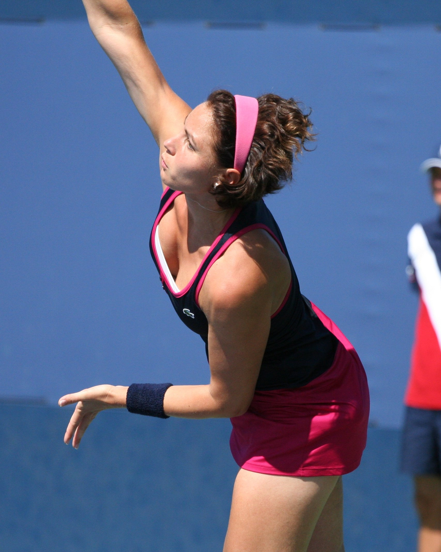 U.S. Open Tuesday, Sept. 1, 2009